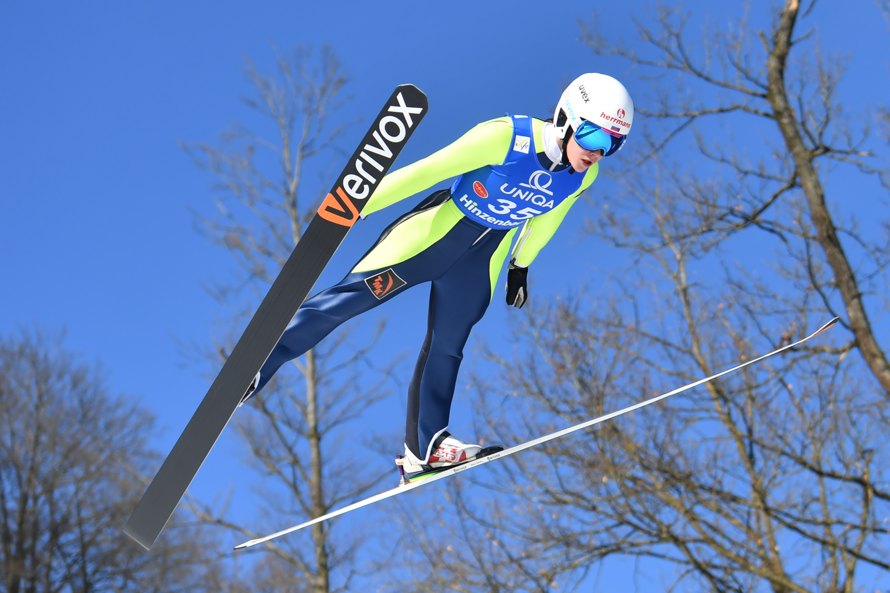 05/02/17, Hinzenbach, Austria, FIS Ski Jumping World Cup Ladies 2017